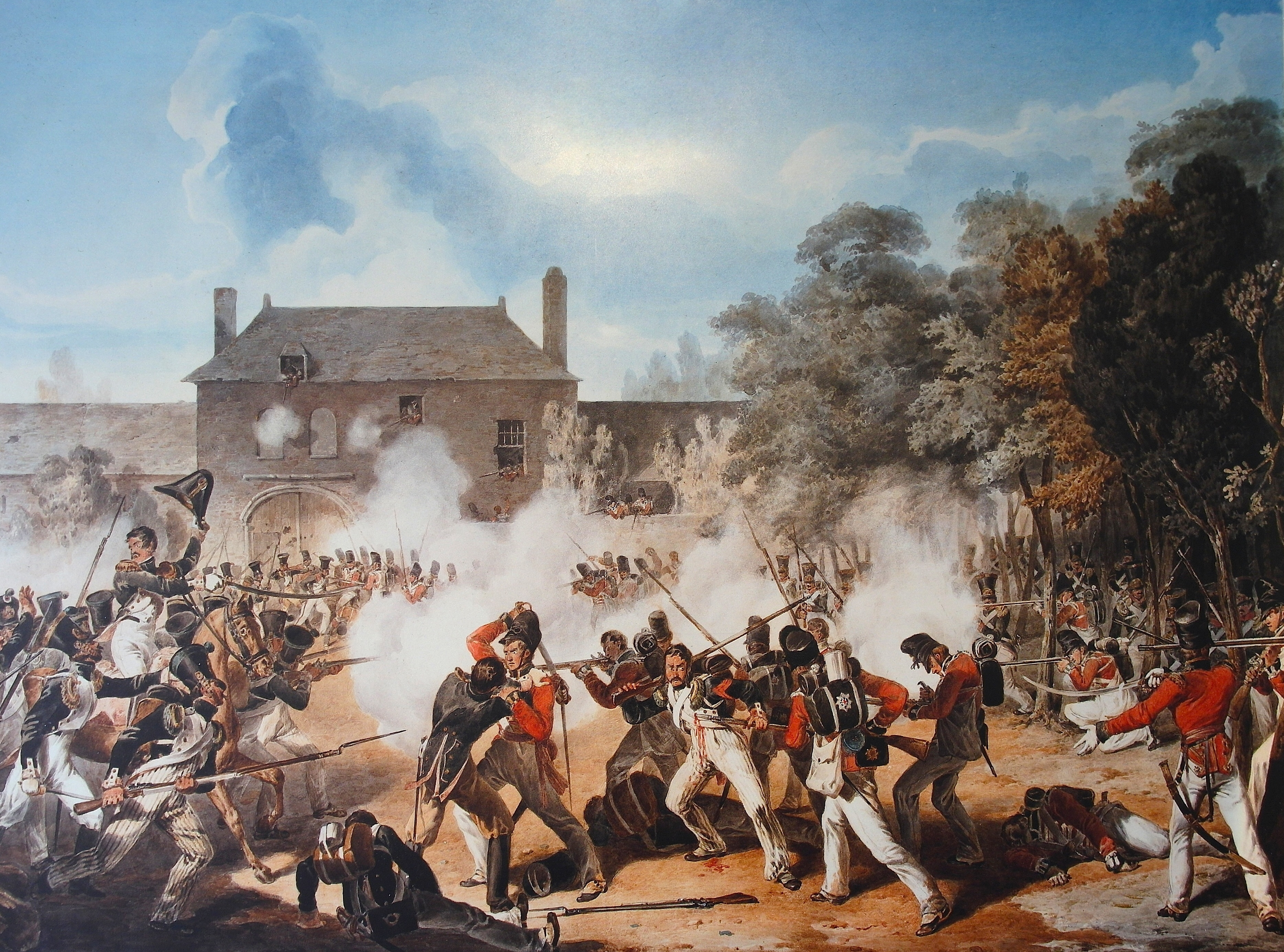 Also spelled as Gomont.